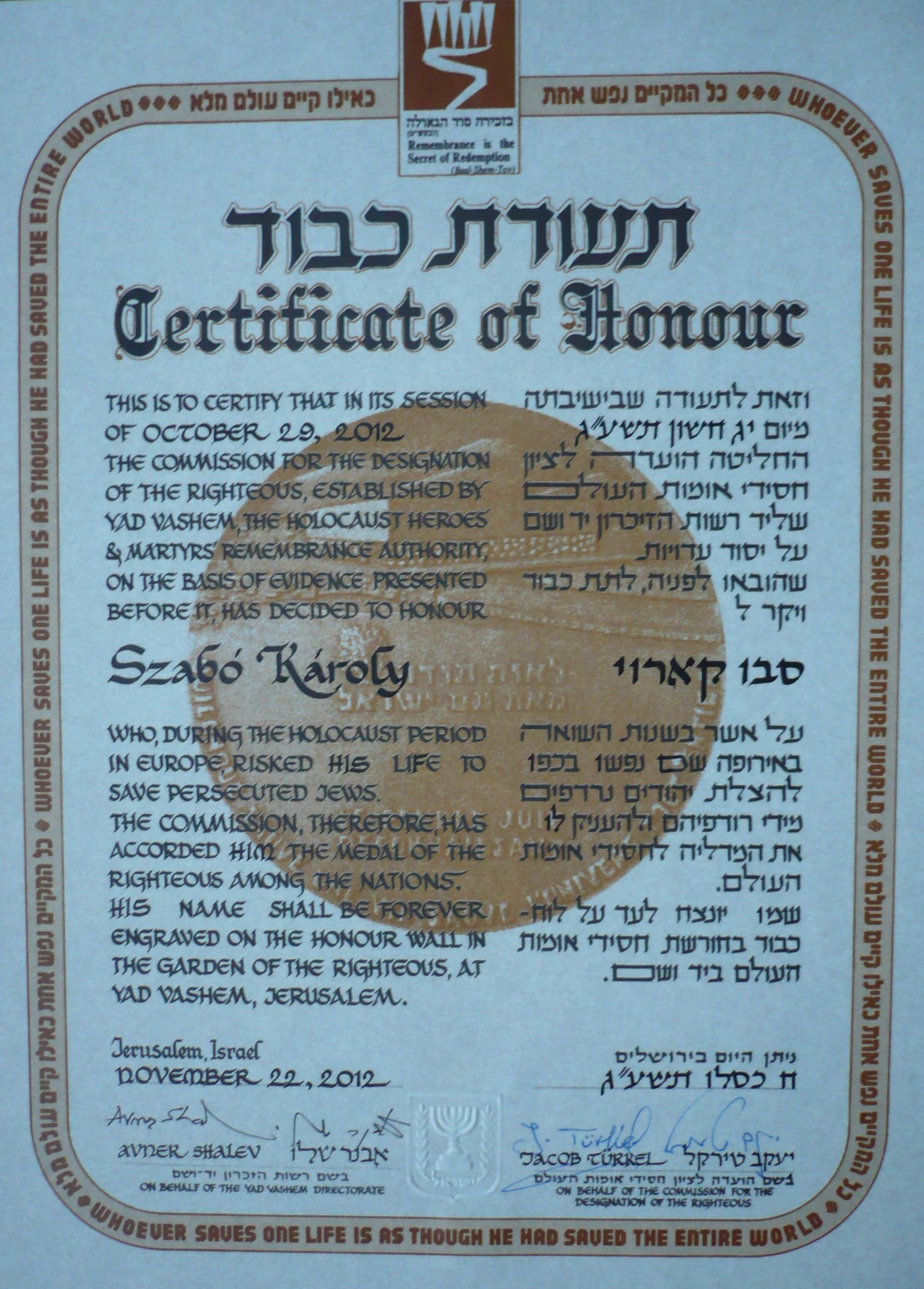 Yad Vashen Certificate, honoring my father Karoly Szabo